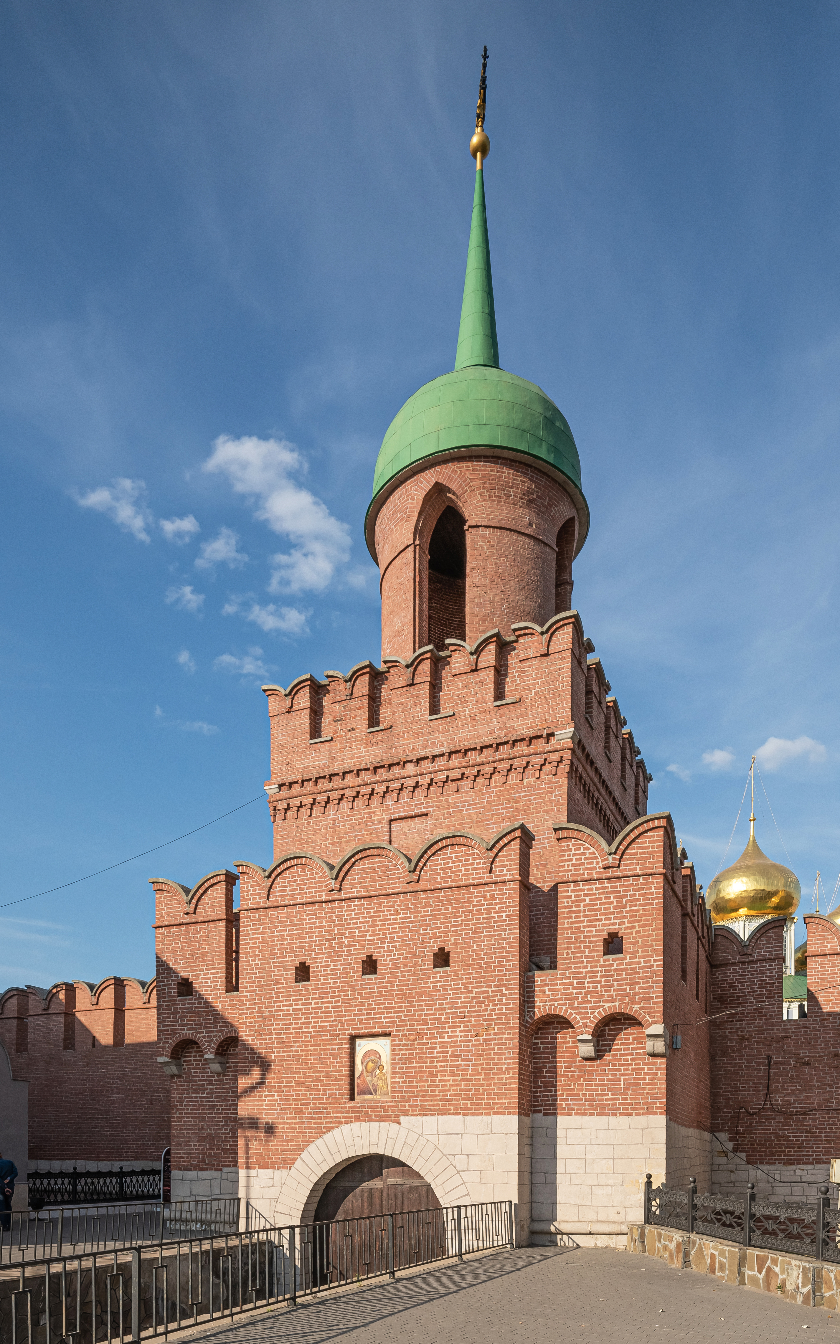 Odoevsky Gate of the Kremlin in Tula, Russia